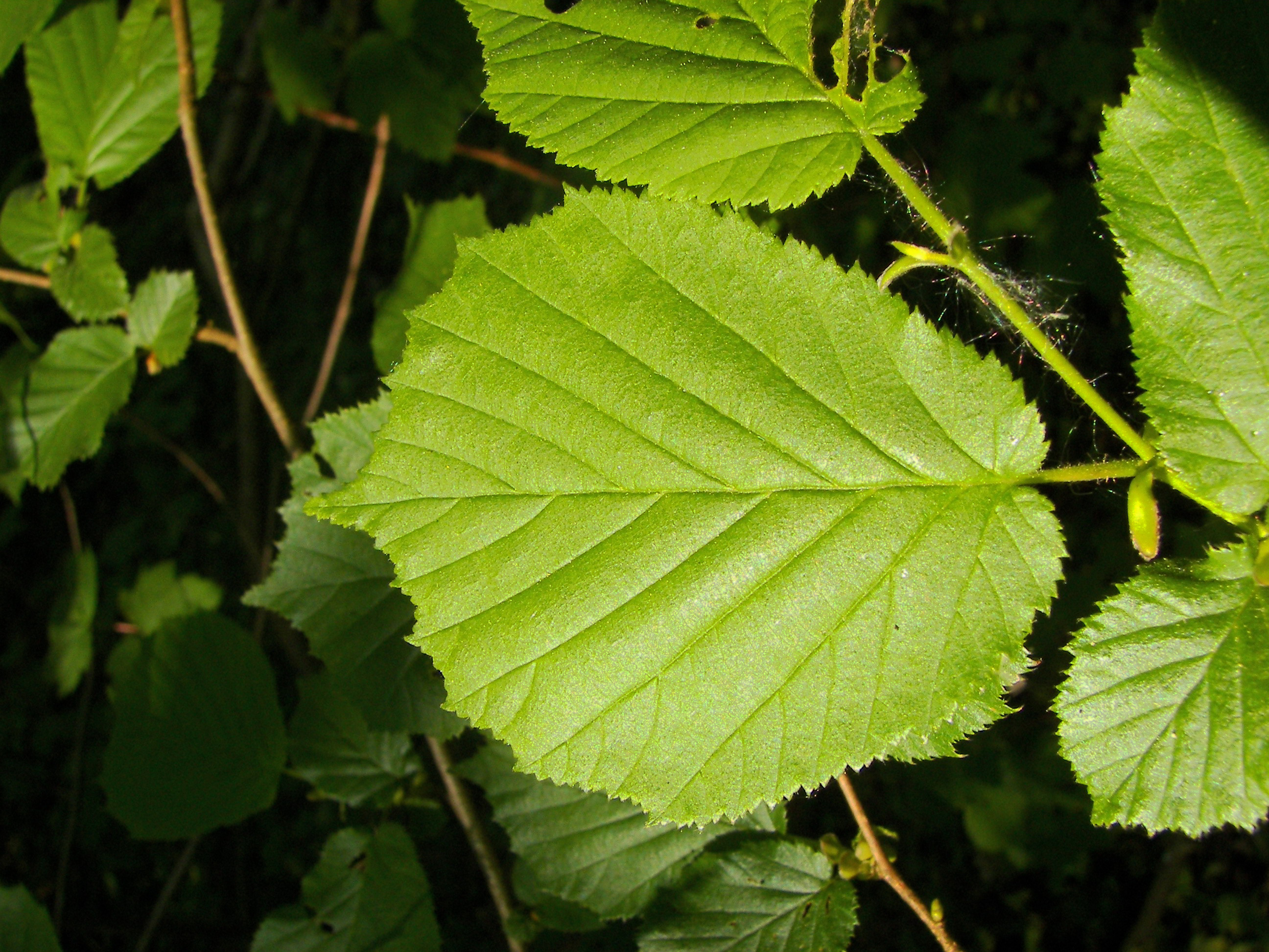 Common Hazel (Corylus avellana), foliage, near Marburg, Hesse, Germany